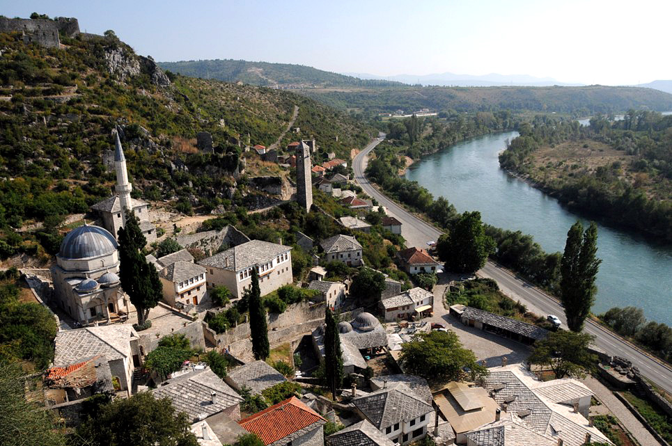 Po?itelj down the Neretva